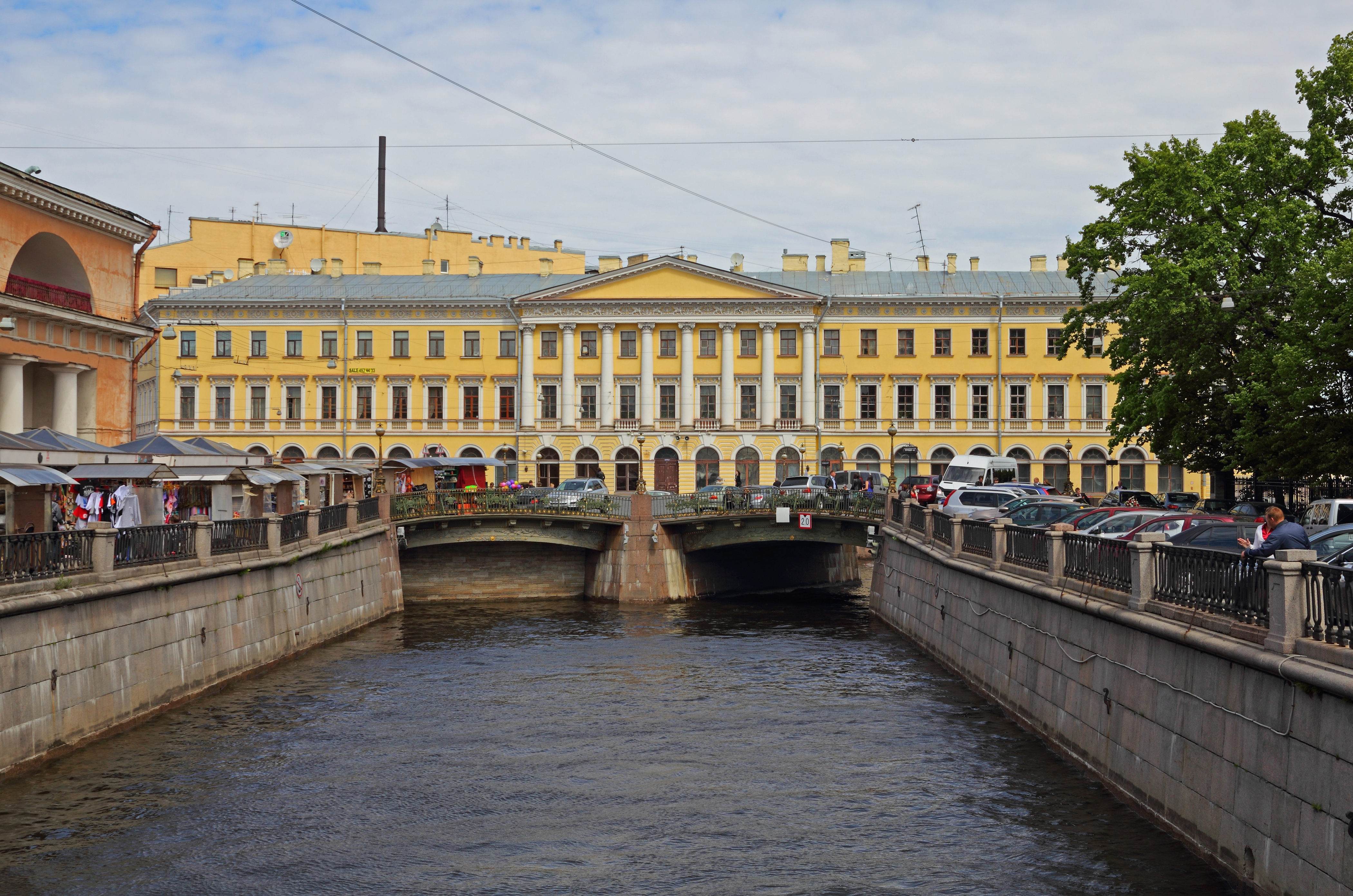 Saint Petersburg, Russia. View of the Griboedov Canal, the Tripartite Bridge, and the Adamini House.